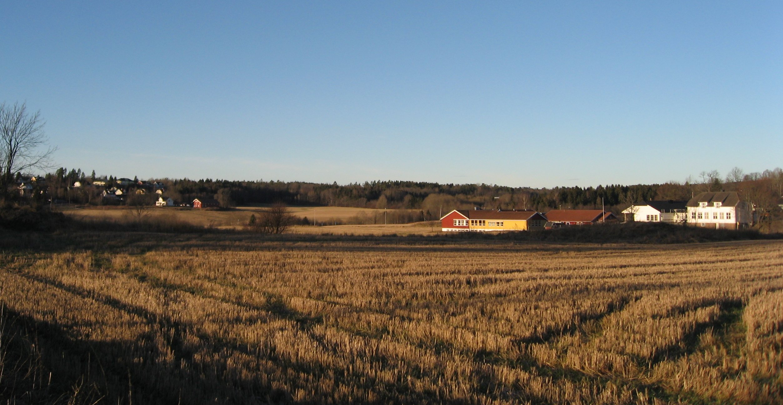 Undrumsdal, Re, Vestfold, Norway. Solerød oppvekstsenter (school and kindergarden) on the right side. Gretteåsen on the left side.